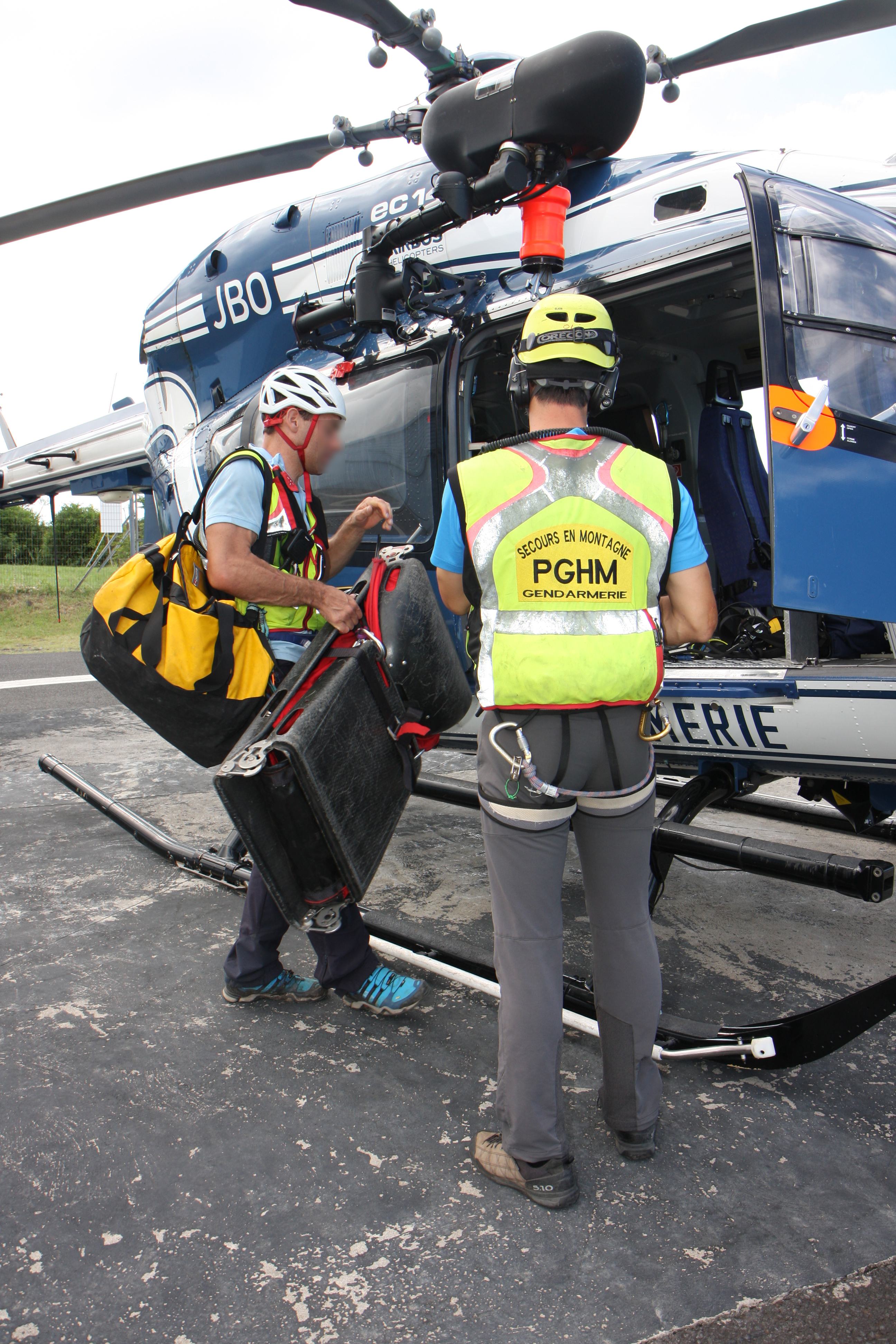 French PGHM gendarmes boarding a Gendarmerie H145 helicopter at the beginning of a mountain rescue mission. La Réunion